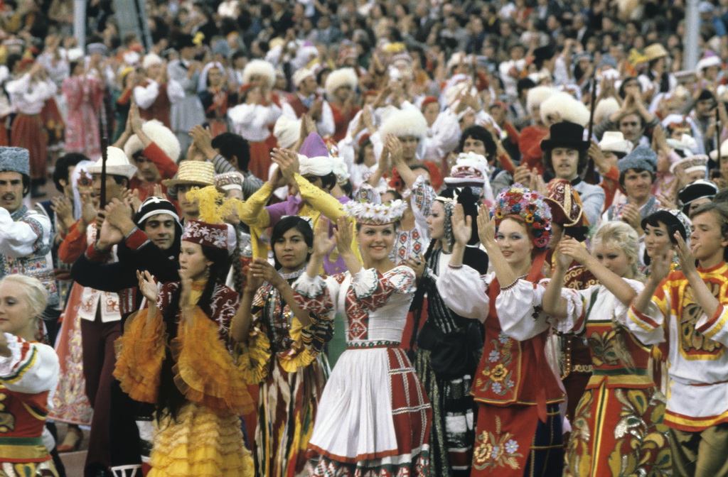 “Opening ceremony of the 1980 Olympiad”. Guests of the 1980 Olympiad are greeted by the representatives of the fifteen republics of the USSR.